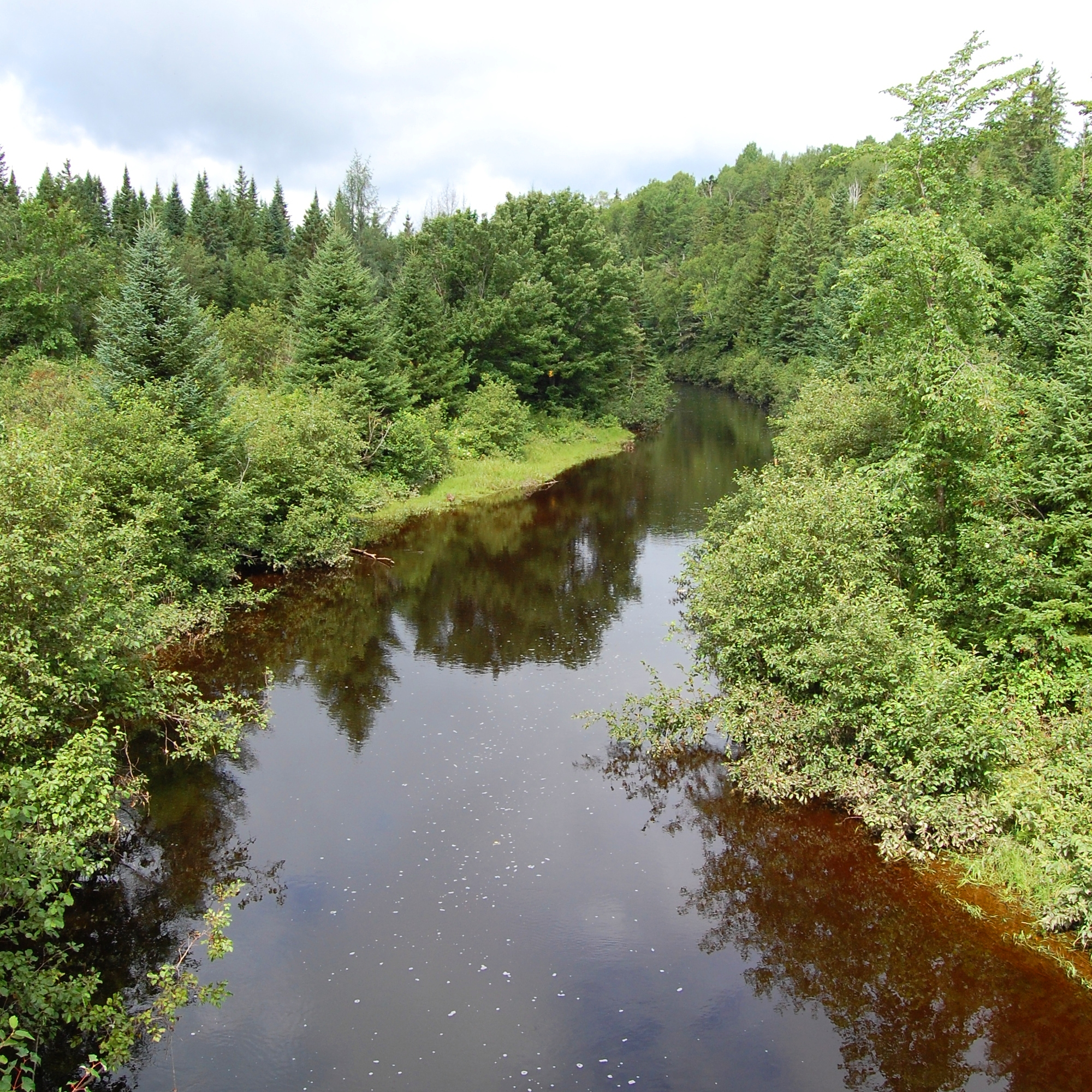 View of the Bass River as seen from route 116 in Kent County NB. This part of the river is not tidal, whereas a substantial portion of the river is.